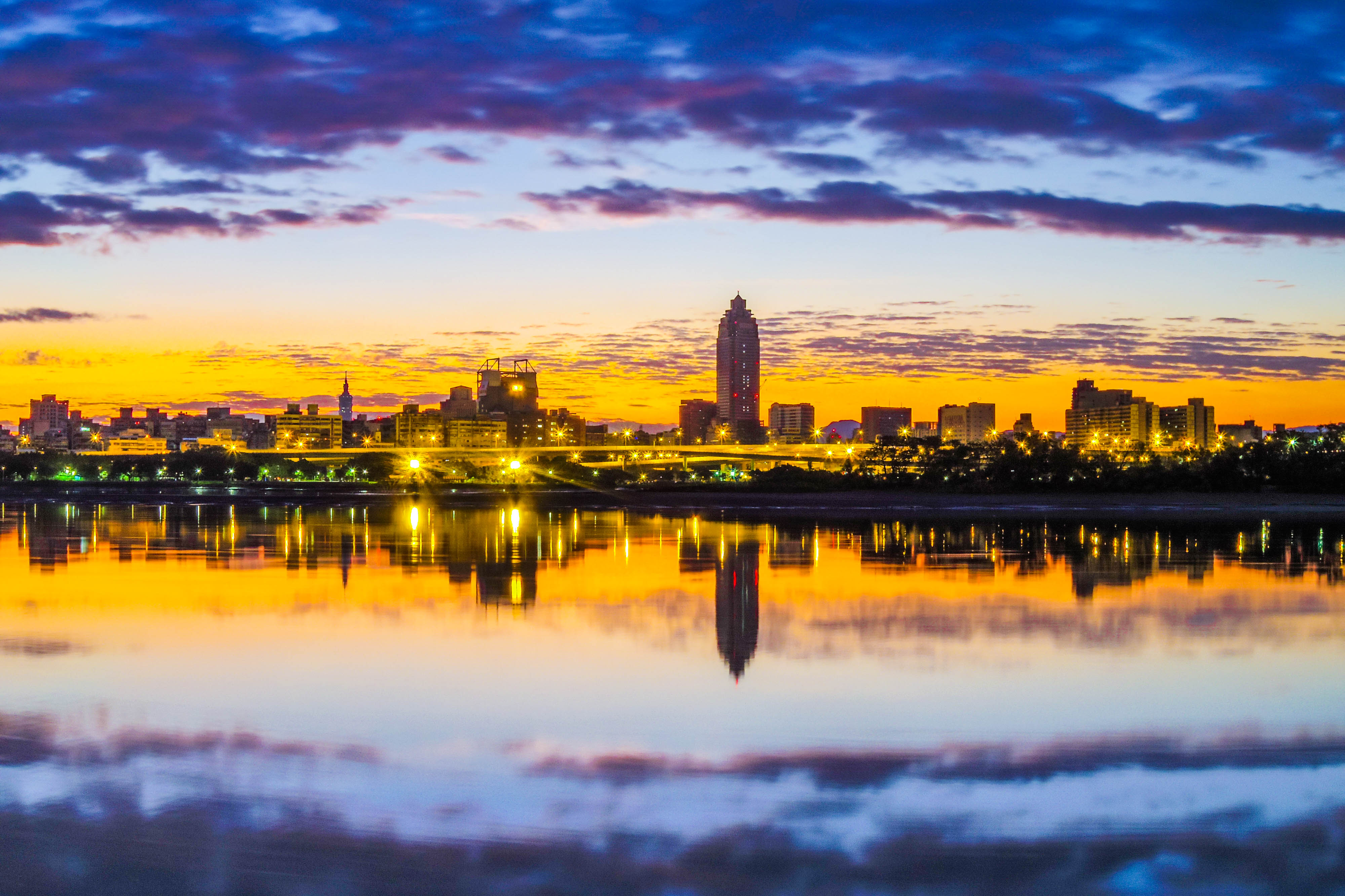 Sunset skyline of Taipei, Taiwan in 2014 photographed from Zhongxiao Wharf